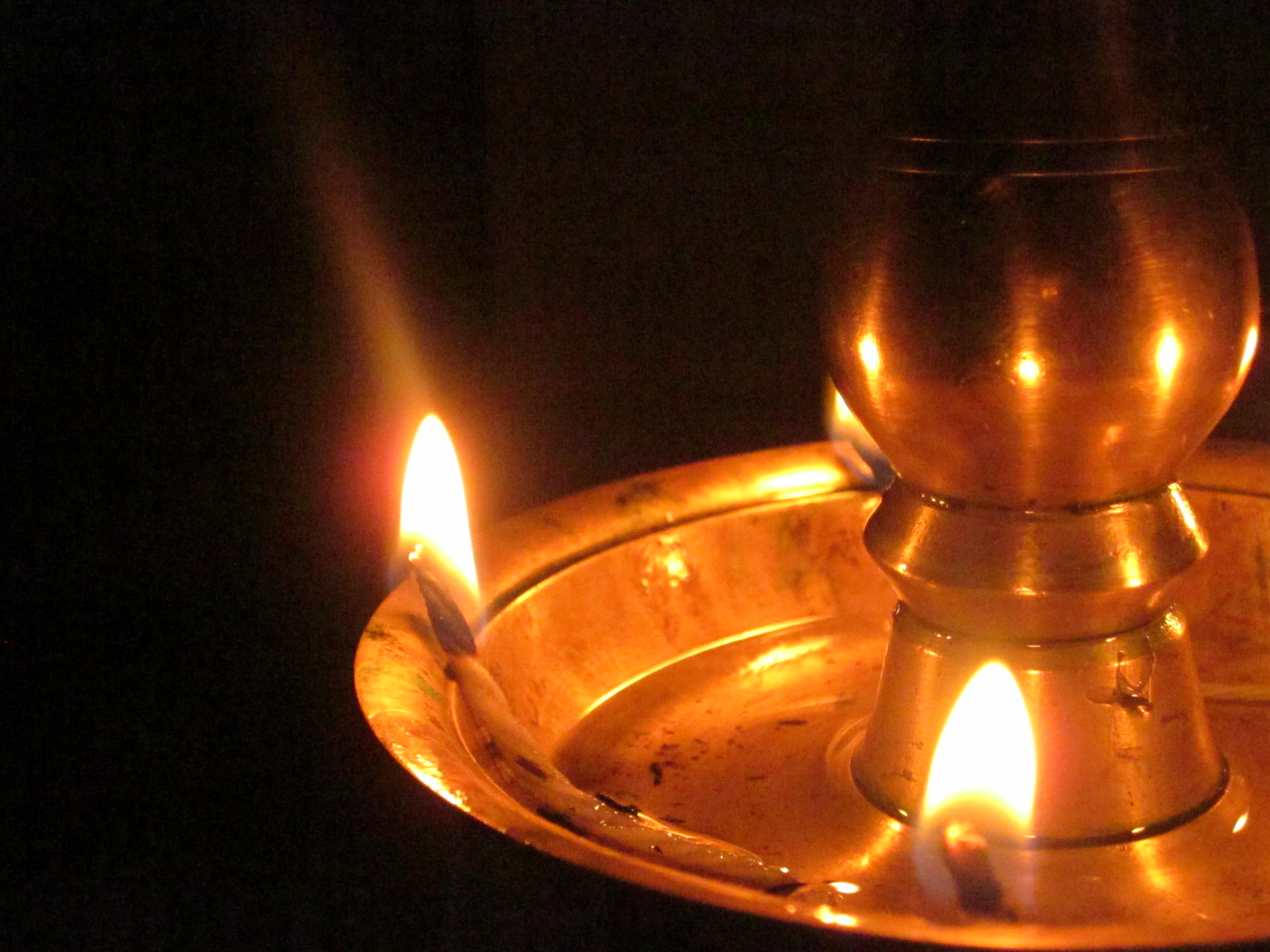 Nilavilakku is a lighted bell metal traditional lamp used commonly in Kerala, South India. Nilam in the Malayalam language means ground and Vilakku means lamp. Nilam and vilakku have exactly the same meaning in the older cognate Tamil language.